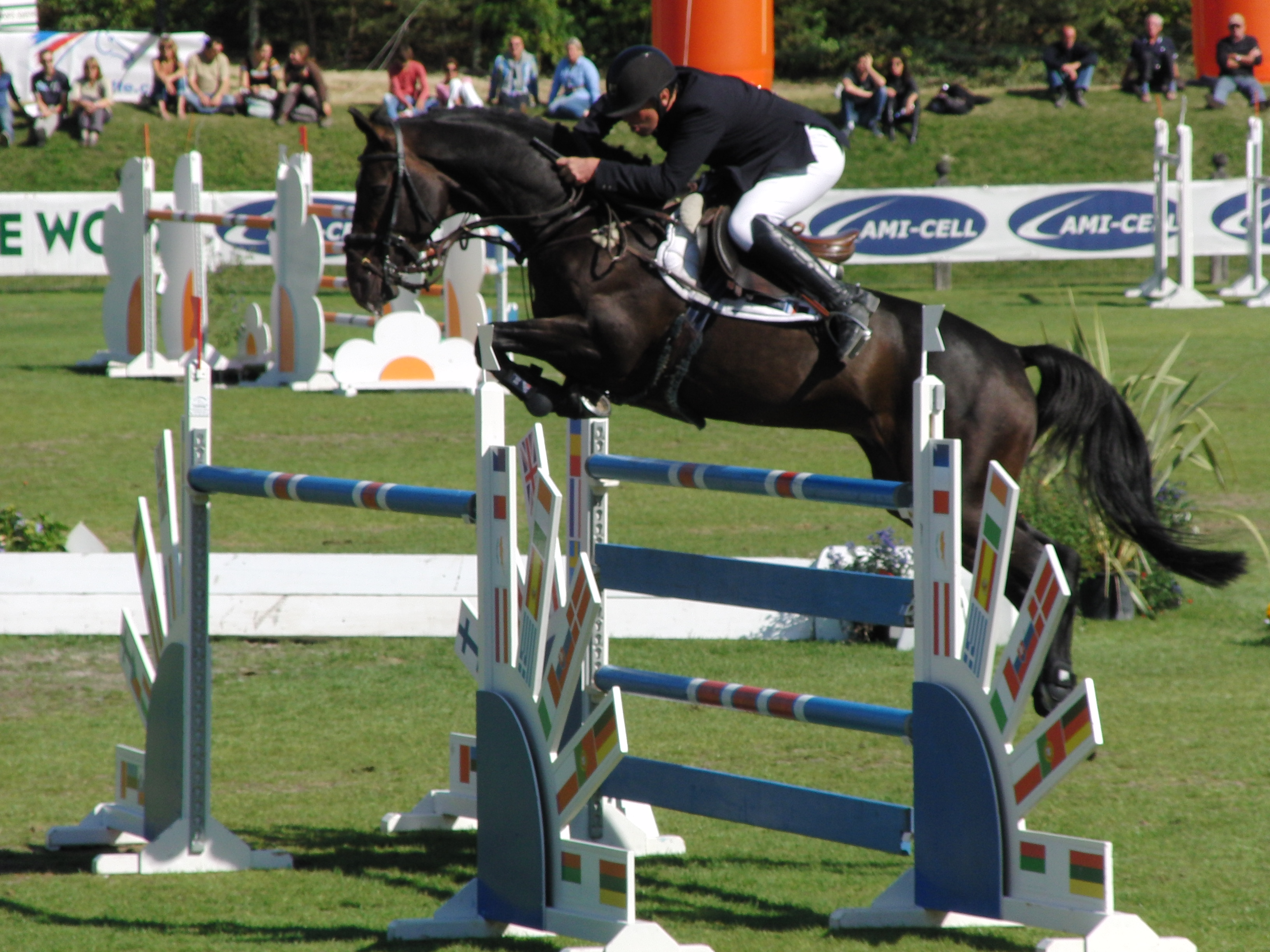 Roger-Yves Bost and Olala de Buissy, Selle français horse Championnats de France de saut d'obstacles "Master Pro" 2010 à Fontainebleau, France